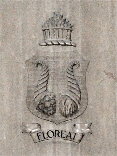 One of the crests in the Banking Hall of the Old Mutual Building, Darling Street, Cape Town, depicting one of the colonial regions of Southern Africa in the early 20th century (1940)